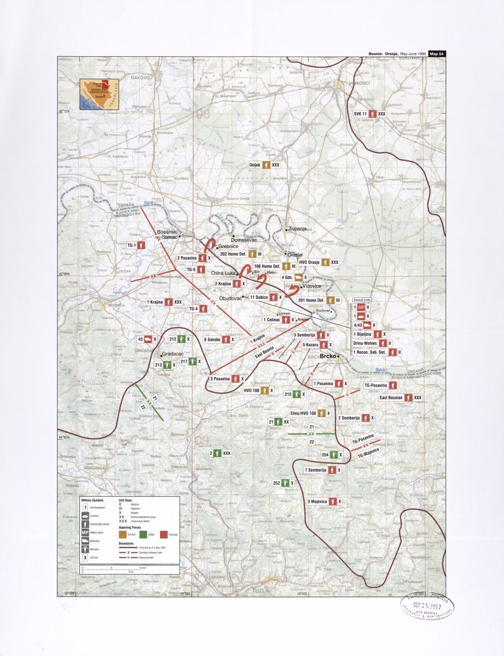 Map of the Battle of Orašje in May-June 1995. Balkan Battlegrounds Map 54